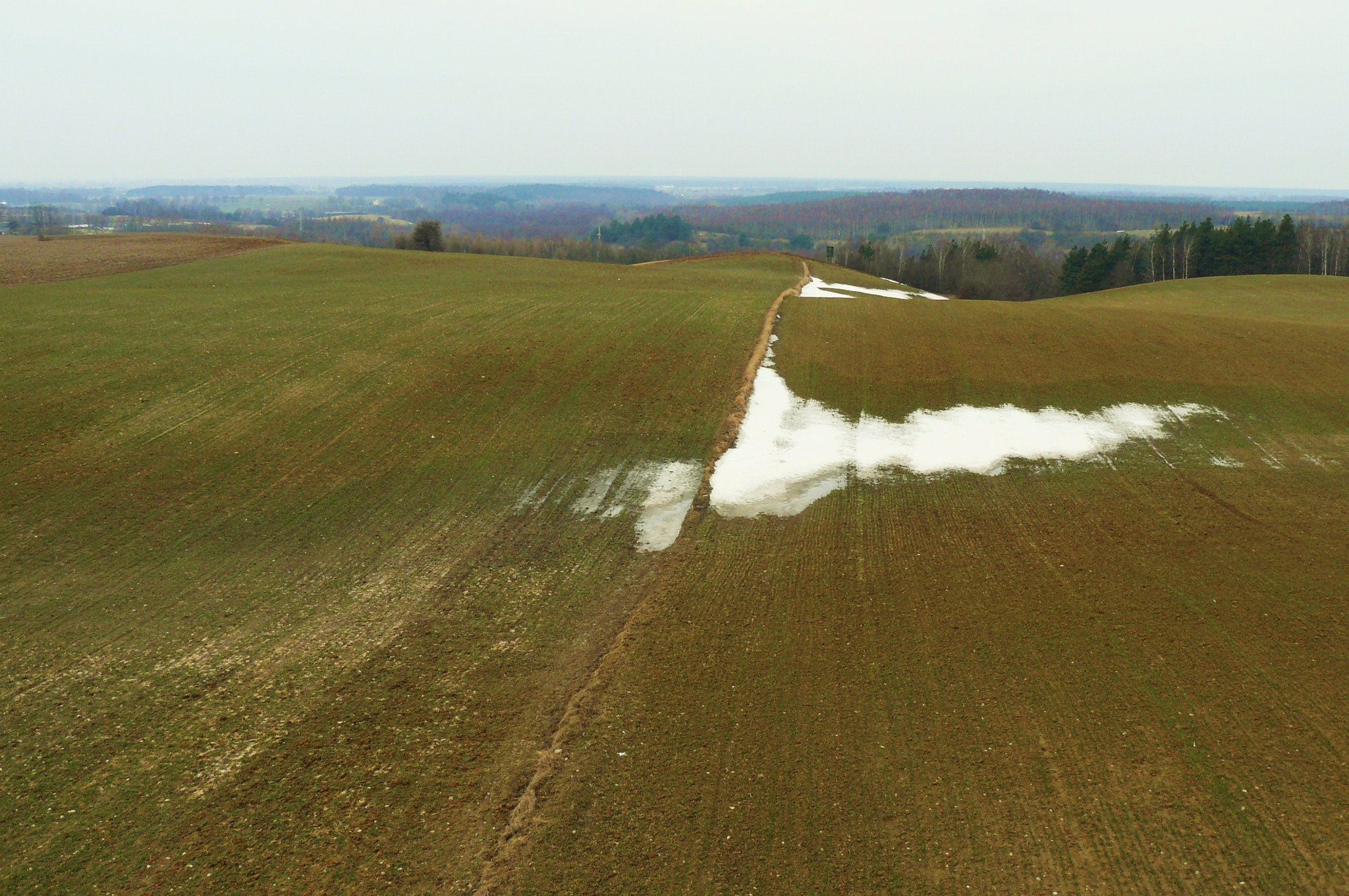 Wydartowski Wall.